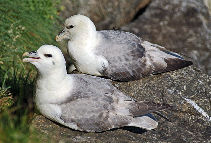 Fulmar (Fulmarus glacialis) at the norwegian bird-island Runde